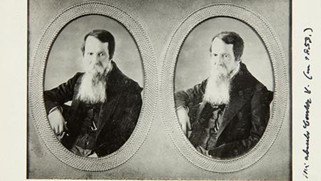 Carlos María Isidro de Borbón